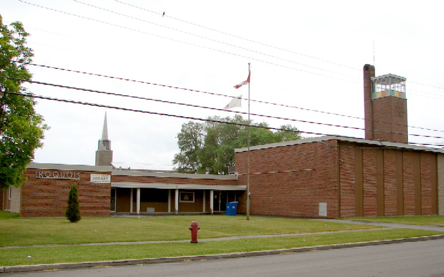 Iroquois (South Dundas Township), Ontario, Canada